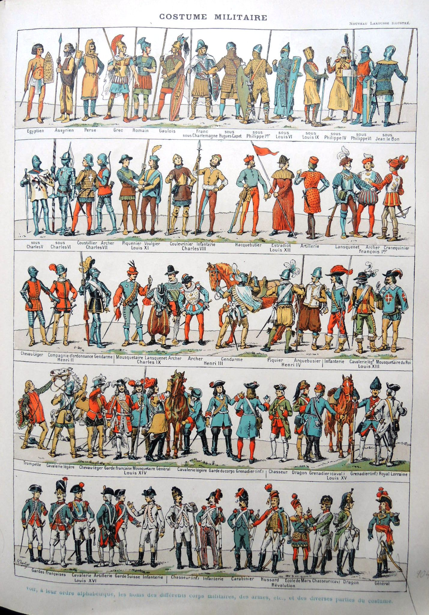 History of military clothing 1